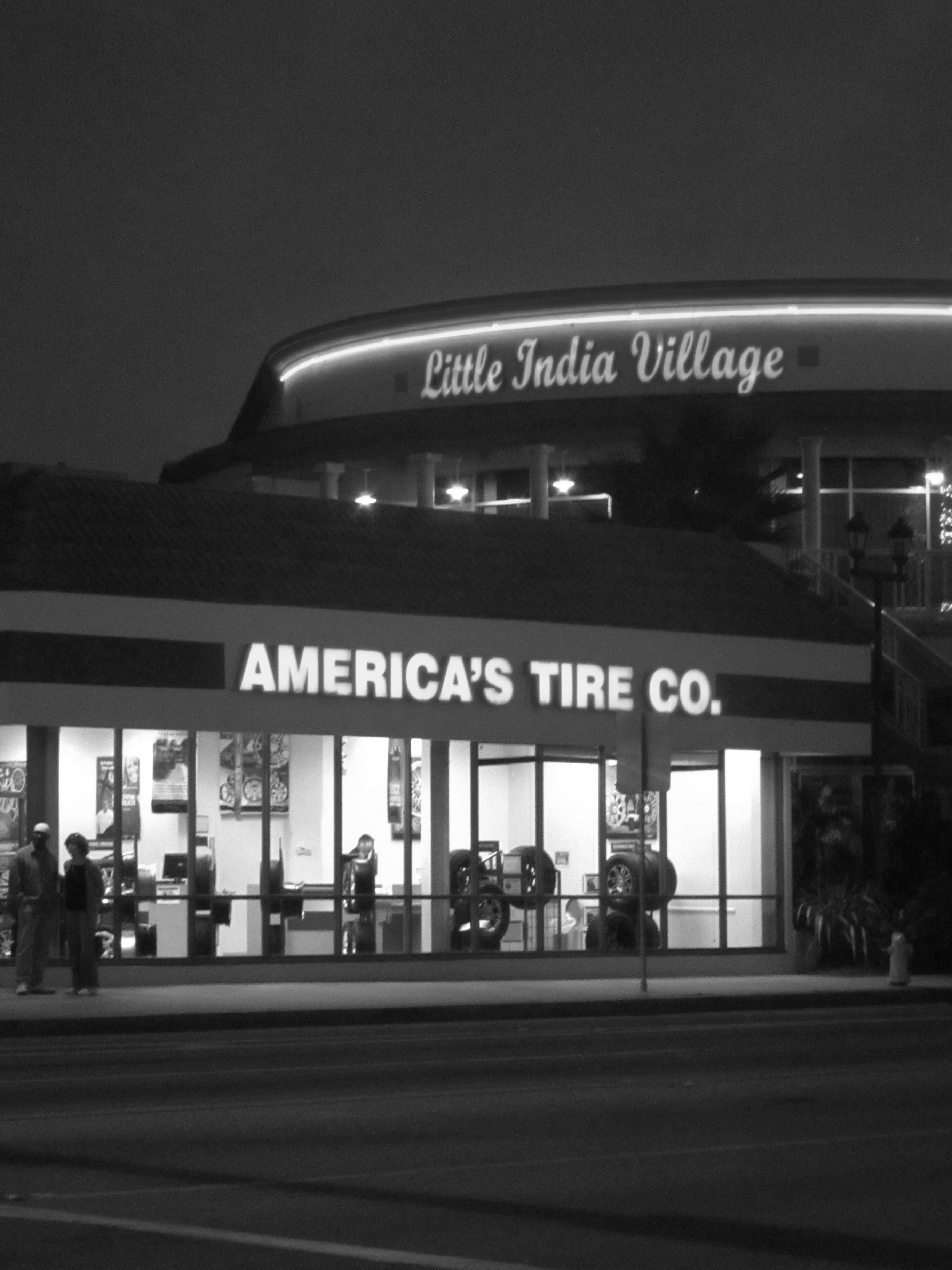 Artesia, Pioneer & 187th